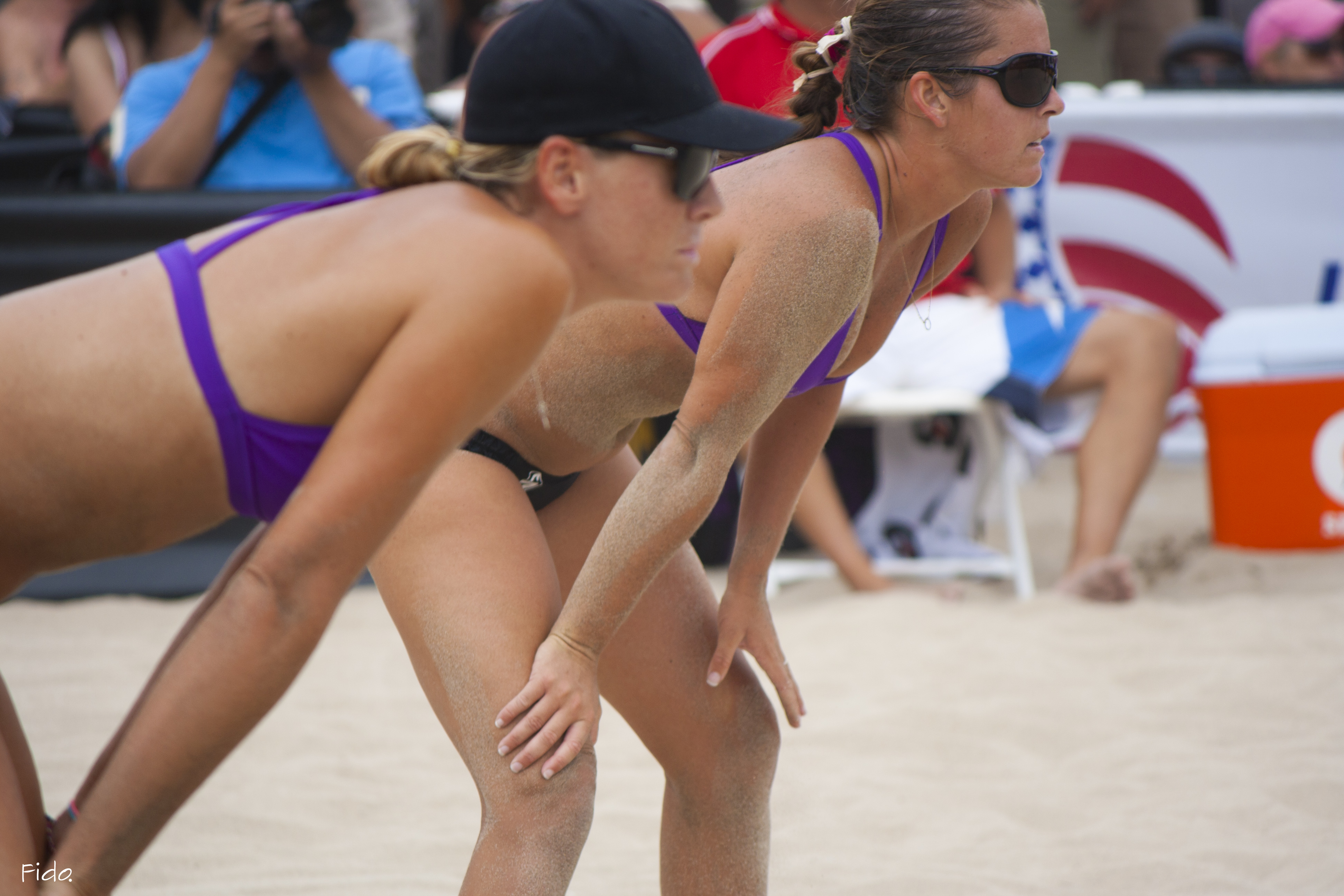 the US beach volleyball players Jennifer Fopma (left) and Brooke Sweat (right) at a tournament in Hermosa Beach